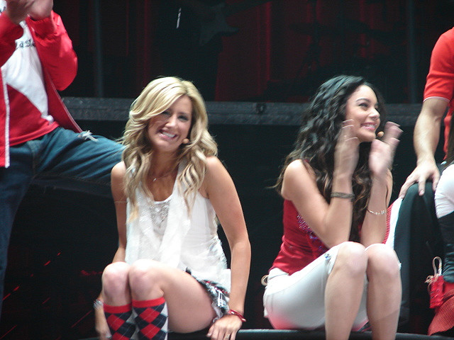 Vanessa Hudgens, Ashley Tisdale.